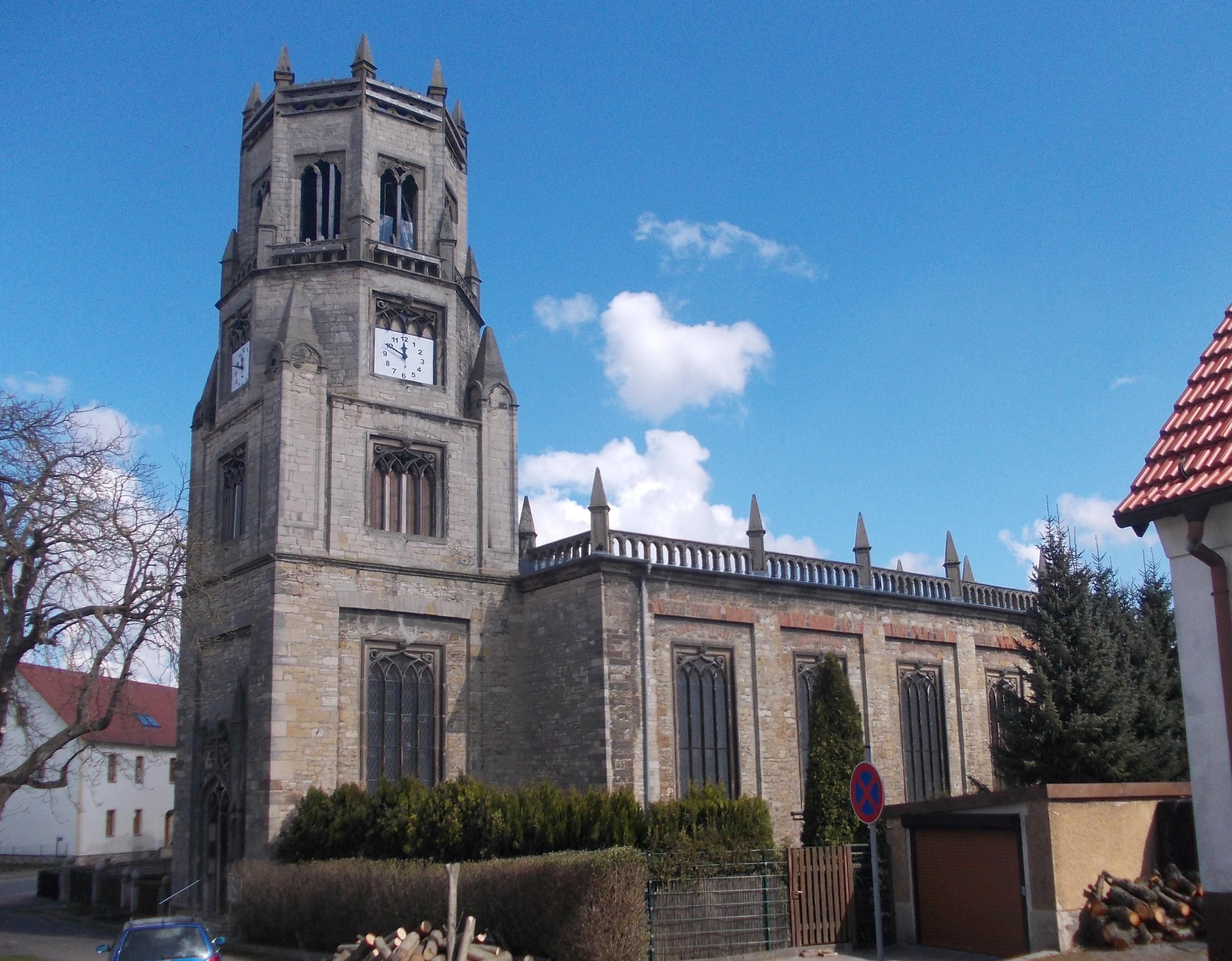 St. Sylvester's Church in Unterfarnstädt (Farnstädt, district: Saalekreis, Saxony-Anhalt)